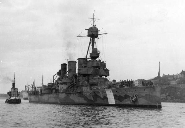 The Swedish coastal defence ship Oscar II during WW2.